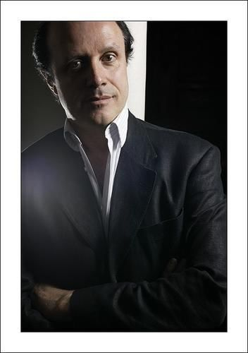 Jorge Chaminé in the streets of Paris